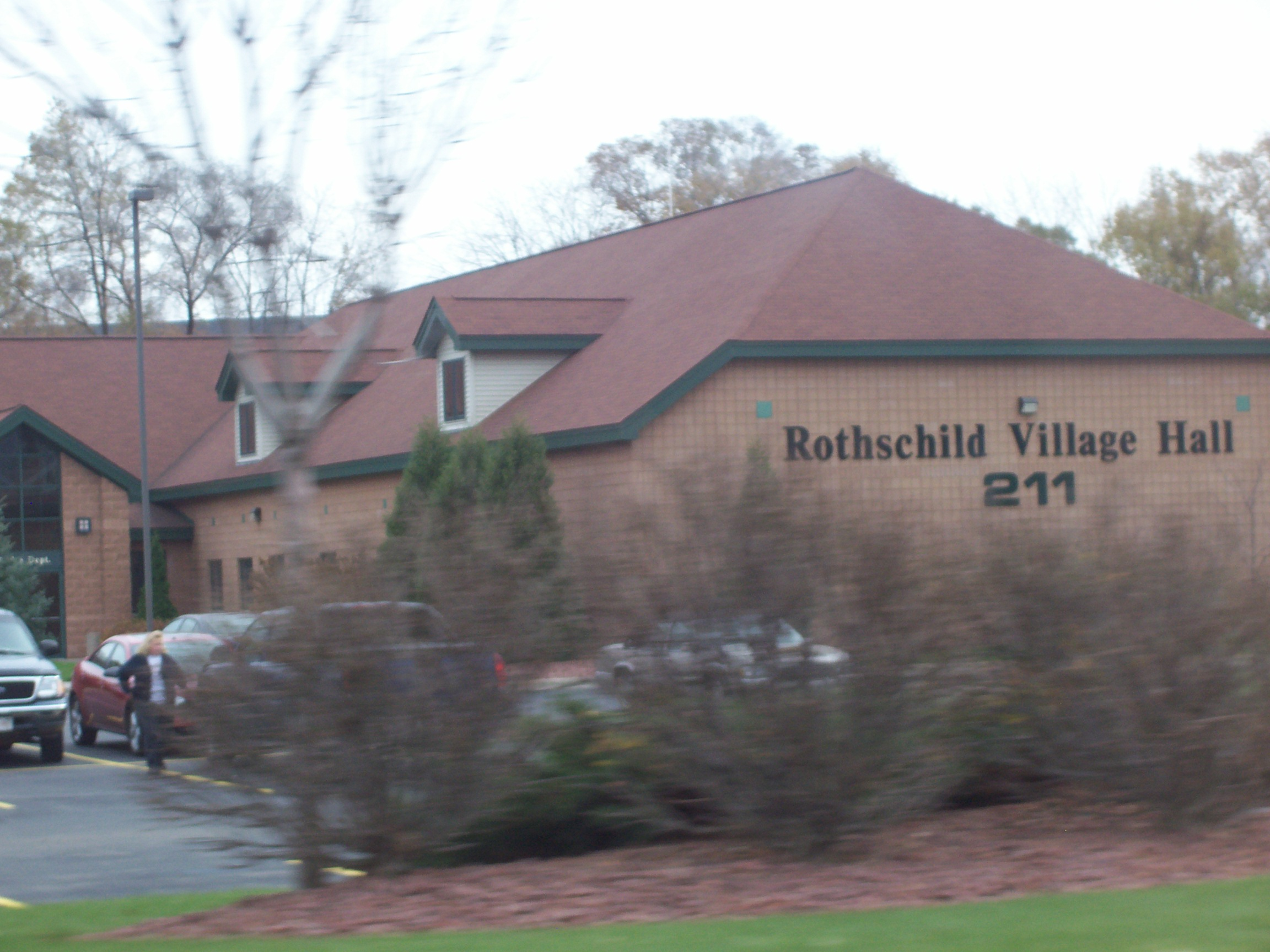 The town hall for the Rothschild, Wisconsin, USA.